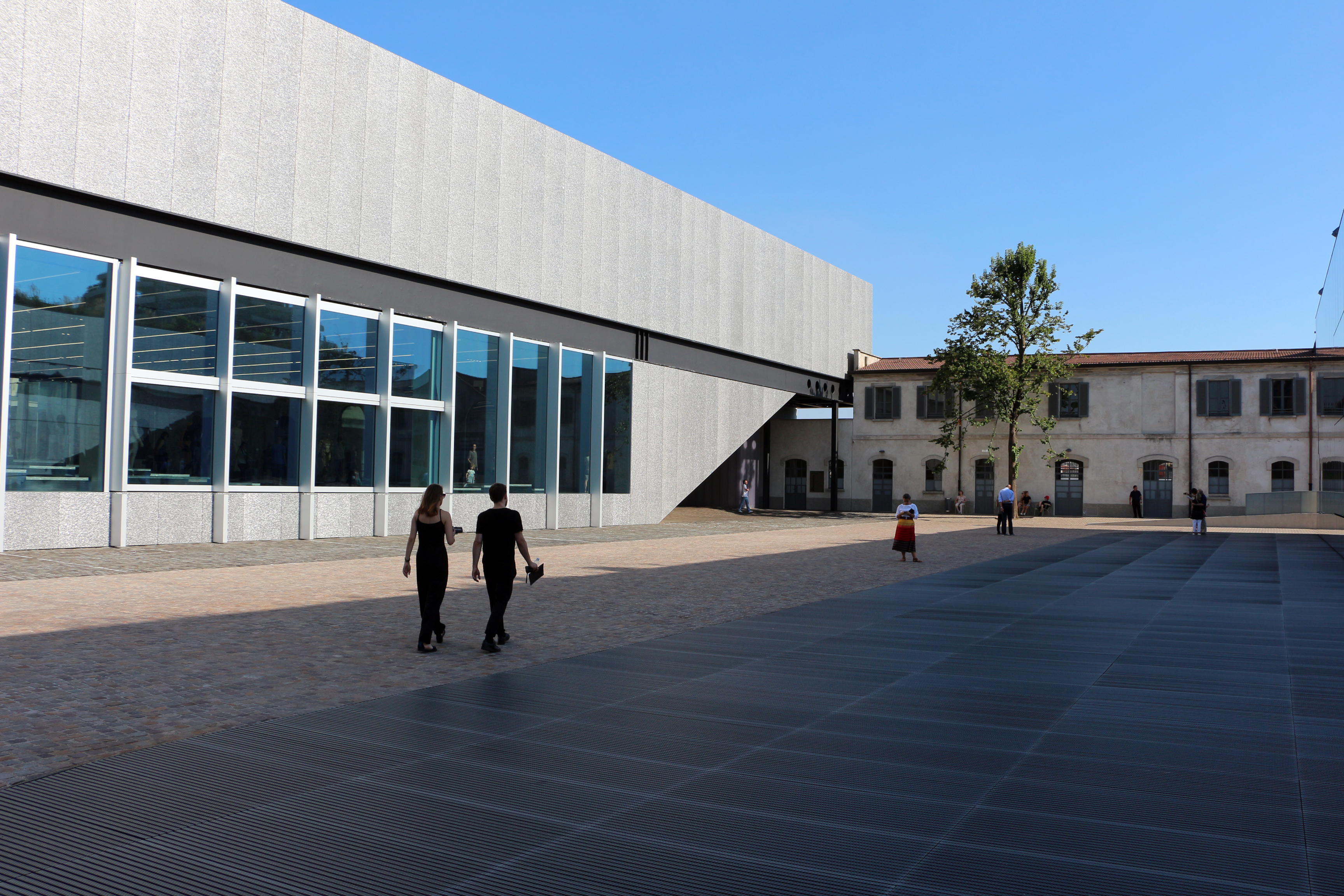 Fondazione Prada (Milan)